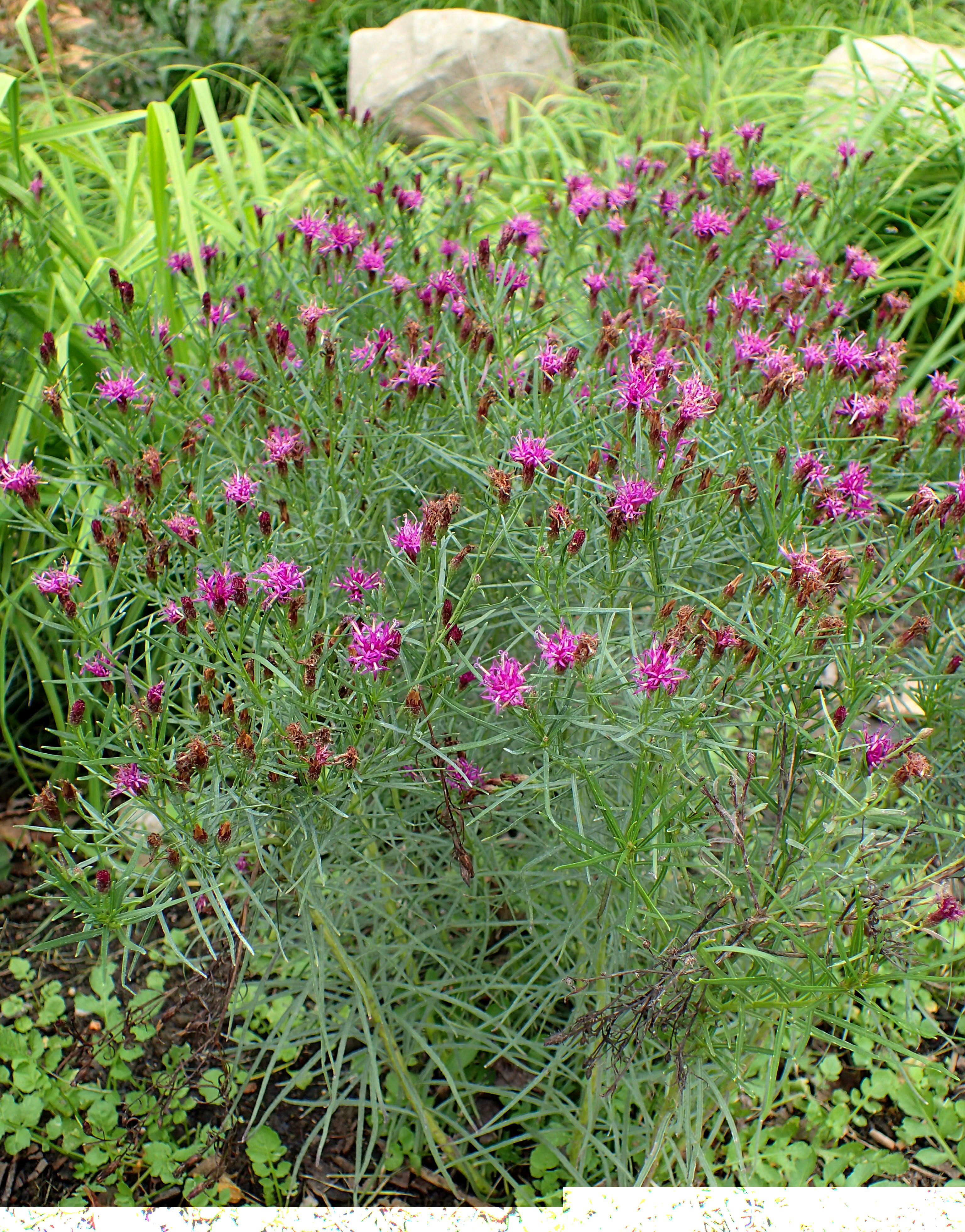 Vernonia lettermanii 'Iron butterfly' in the Brooklyn Botanic Garden